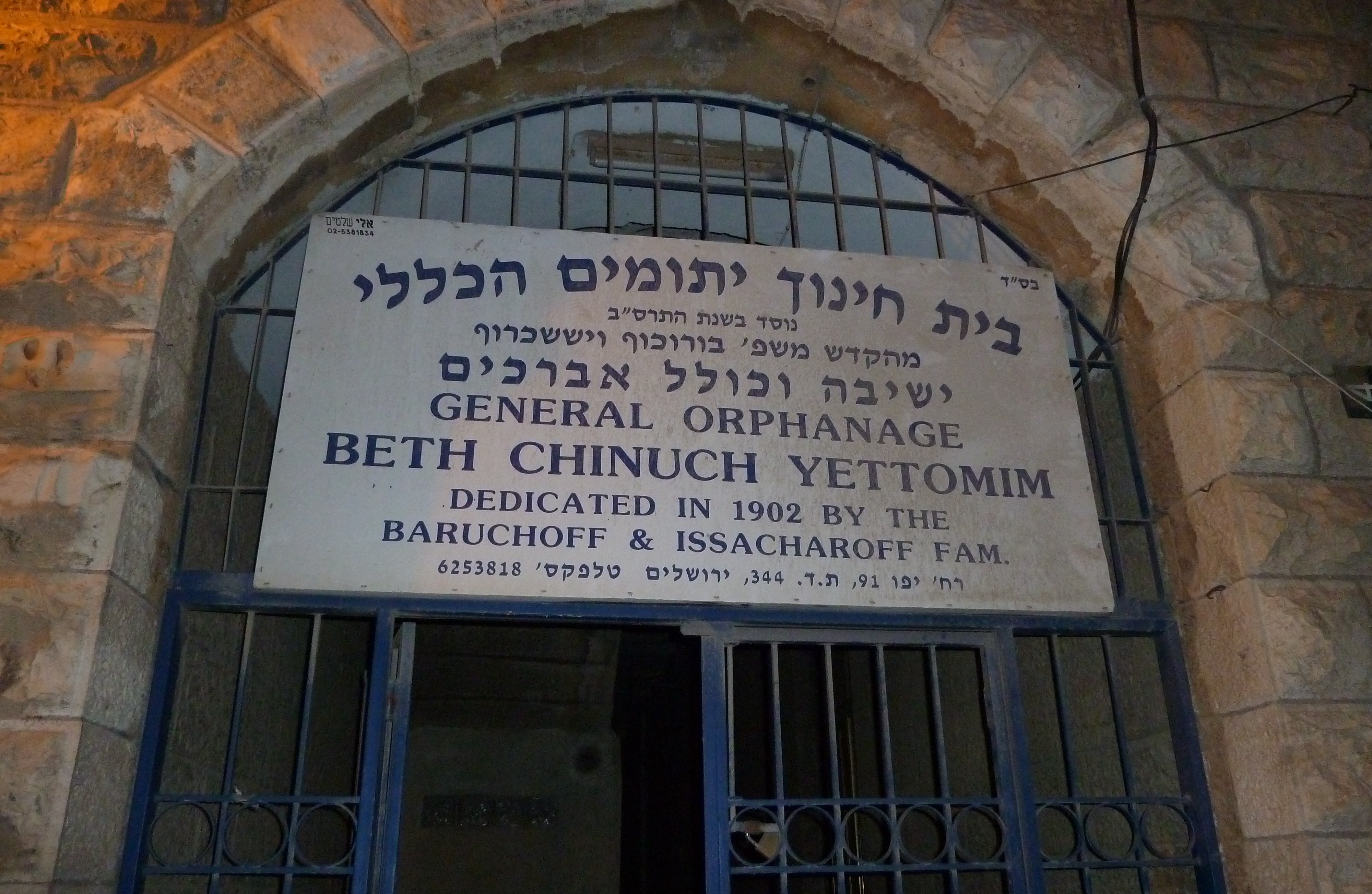 Achdut Israel - Olei Ha Gardom Synagogue